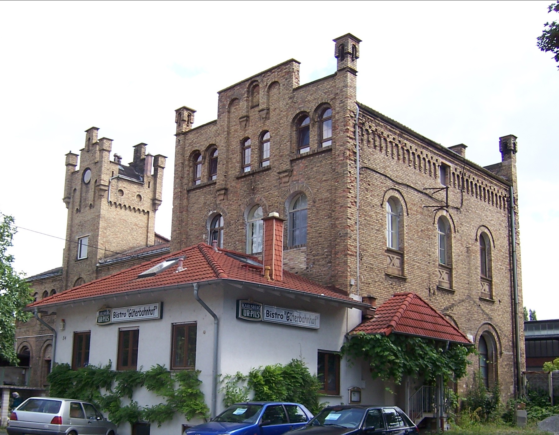 Former Freight train station of Bad Kreuznach, view from the street